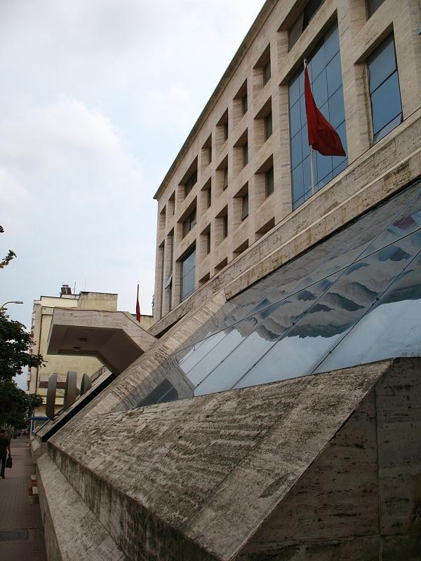 Albanian ministry of Justice